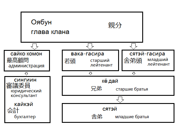 Russification of File:Yakuza hierarchy.png